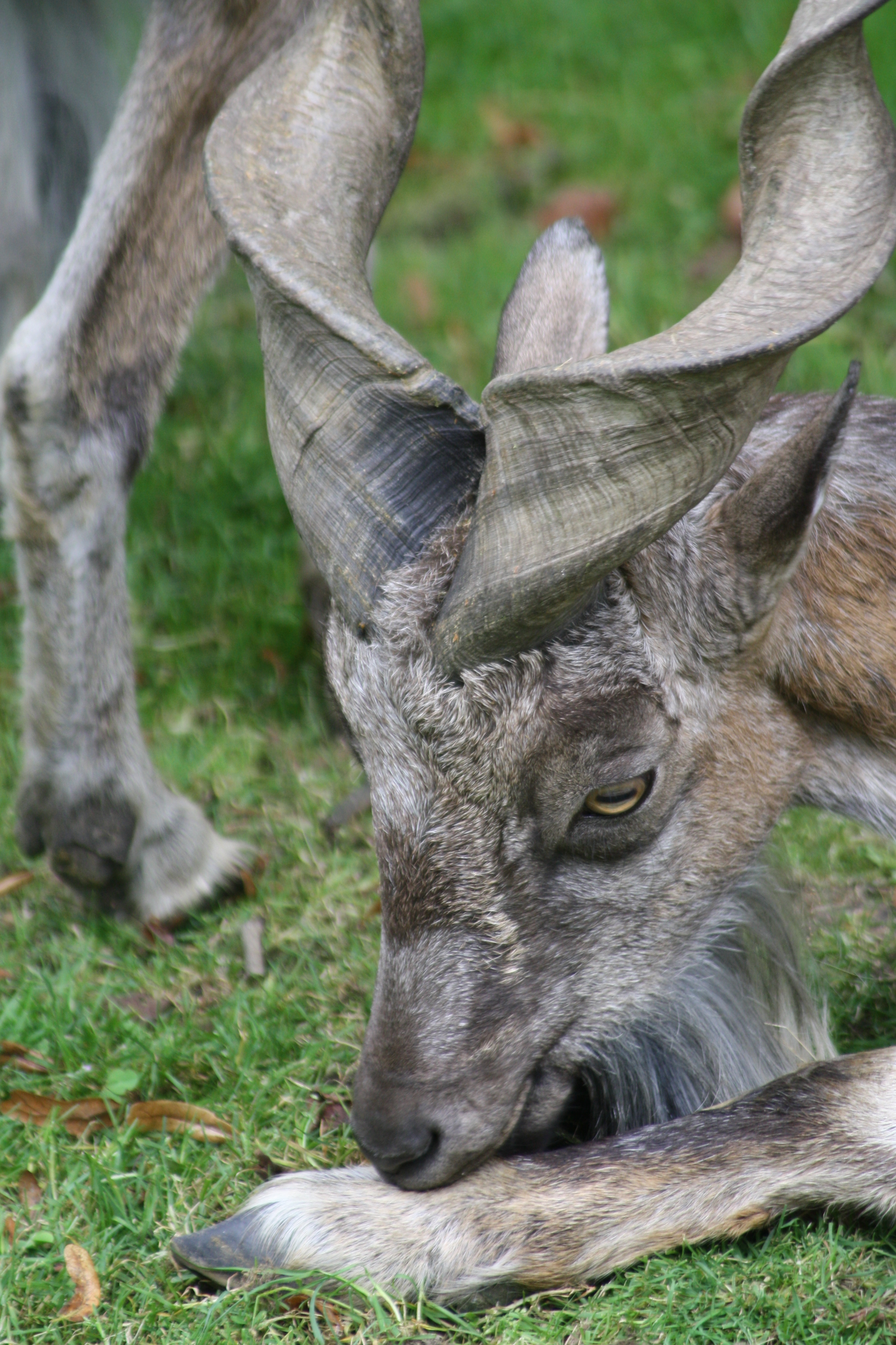 Head of Capra falconeri heptneri in Liberec Zoo.